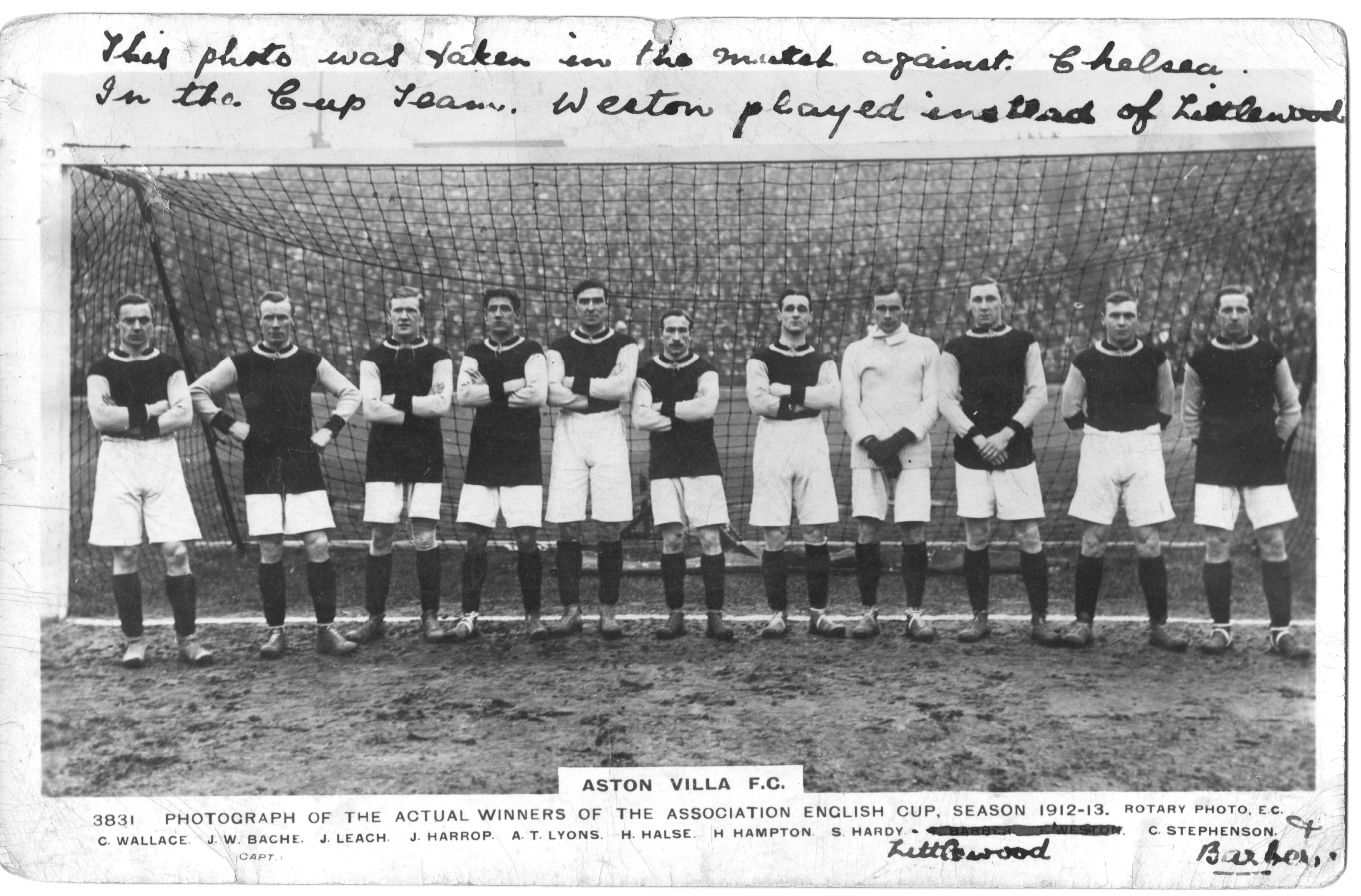 This pre-1916 postcard (that I own) from an old scrapbook claims to show the members of the Aston Villa 1912-13 season English Football Association Cup winning team. The names of the players are listed, but there is a handwritten note which indicates three of the names are mislabeled. The author of the note is not known. Two names have been scratched out, but can be read under magnification. They are T. Barber and T. Weston. The writer has substituted Littlewood and placed Barber at the end after C. Stephenson. Judging from other photos of the team found online, the writer of the note is correct. He says that this photo was taken after that year's game with Chelsea. So, in short, one player, Weston, is missing, and one player who did not appear in the cup final is shown, namely Littlewood.